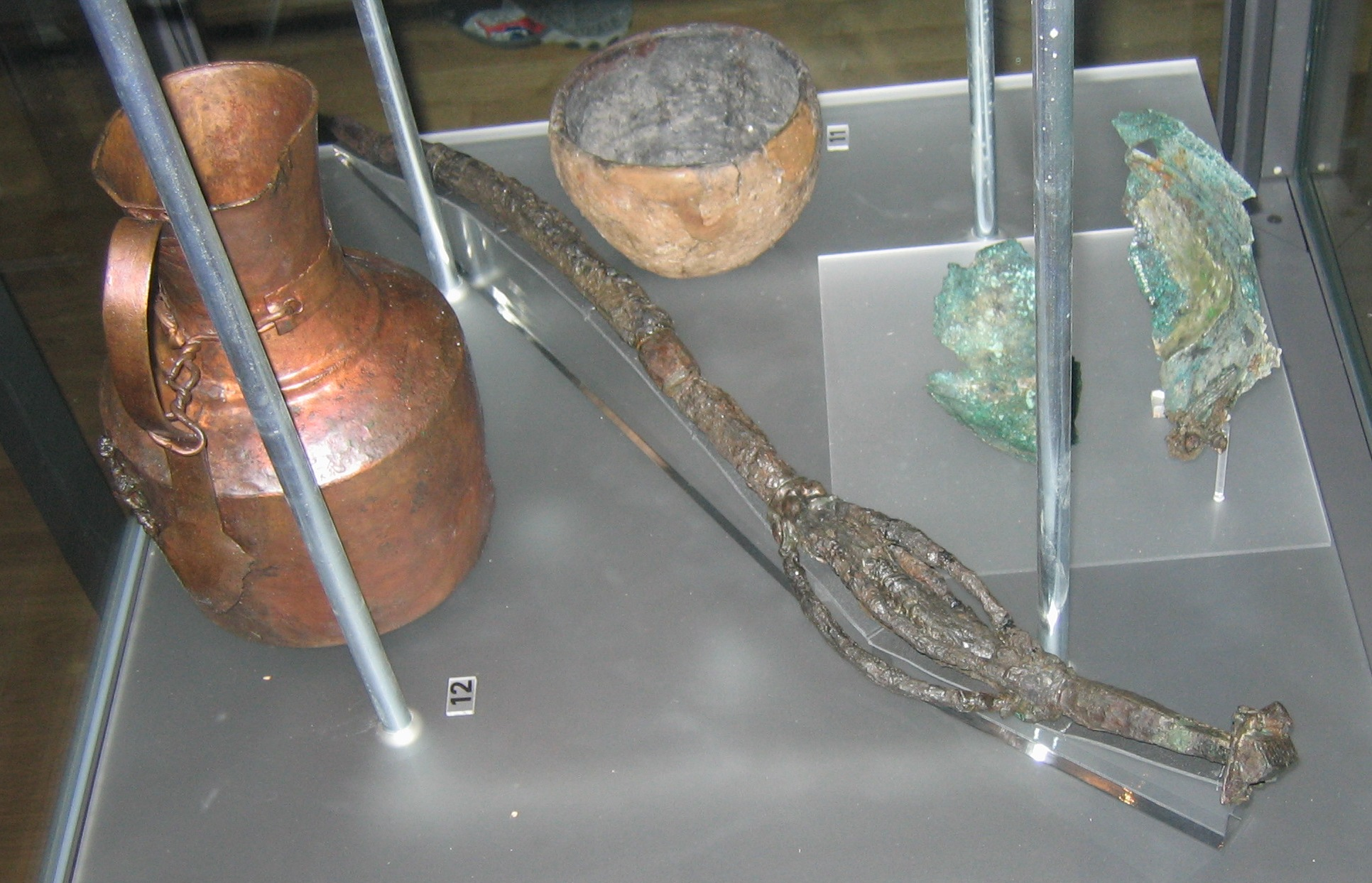 finds from the grave of a pagan priestess on Öland.